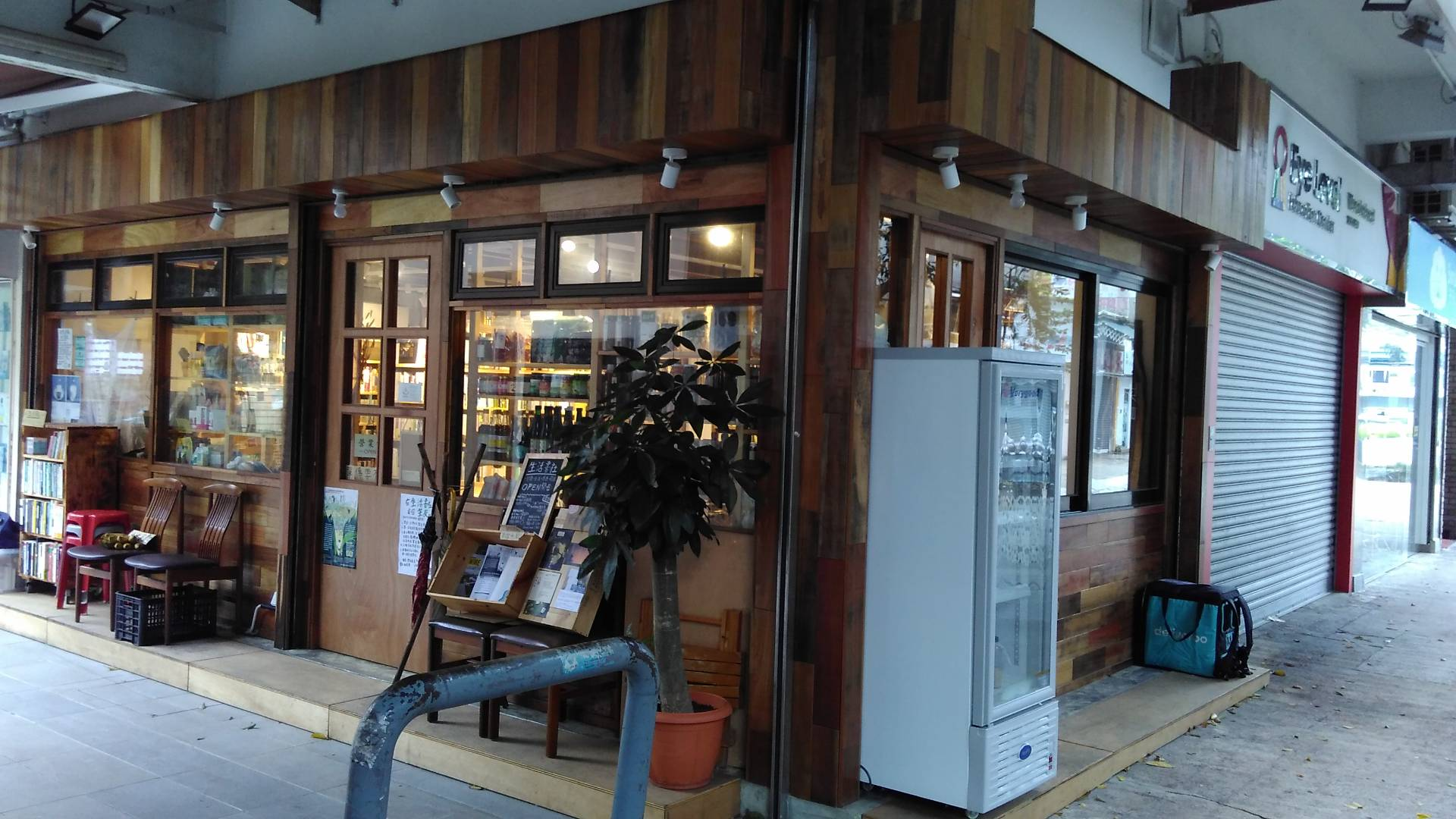 This photo can help readers know about the bookstore (Living Bookspace) that is mentioned in the article, and let readers understand the article is describing a specified bookstore.